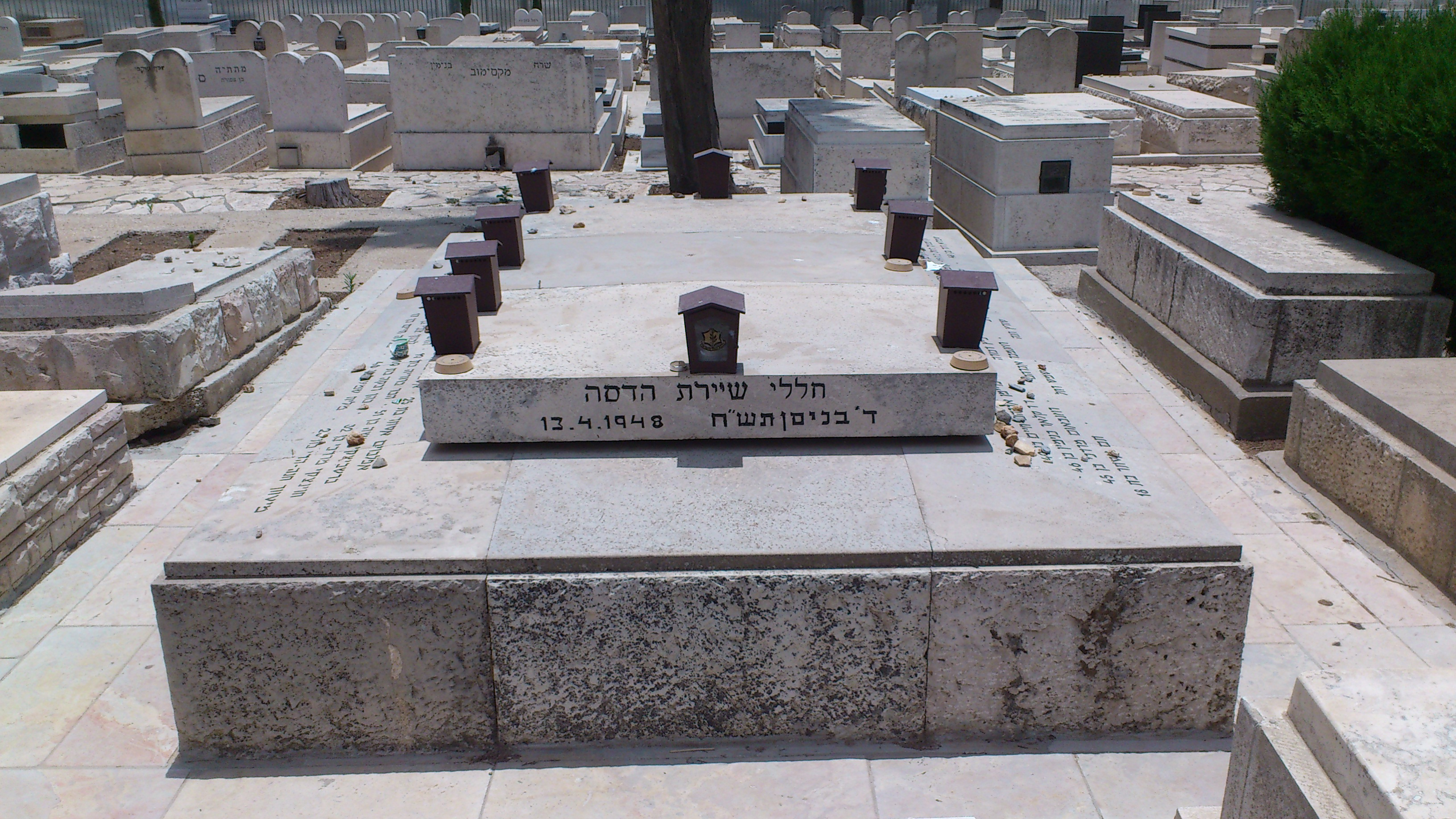 Hadassah medical convoy massacre